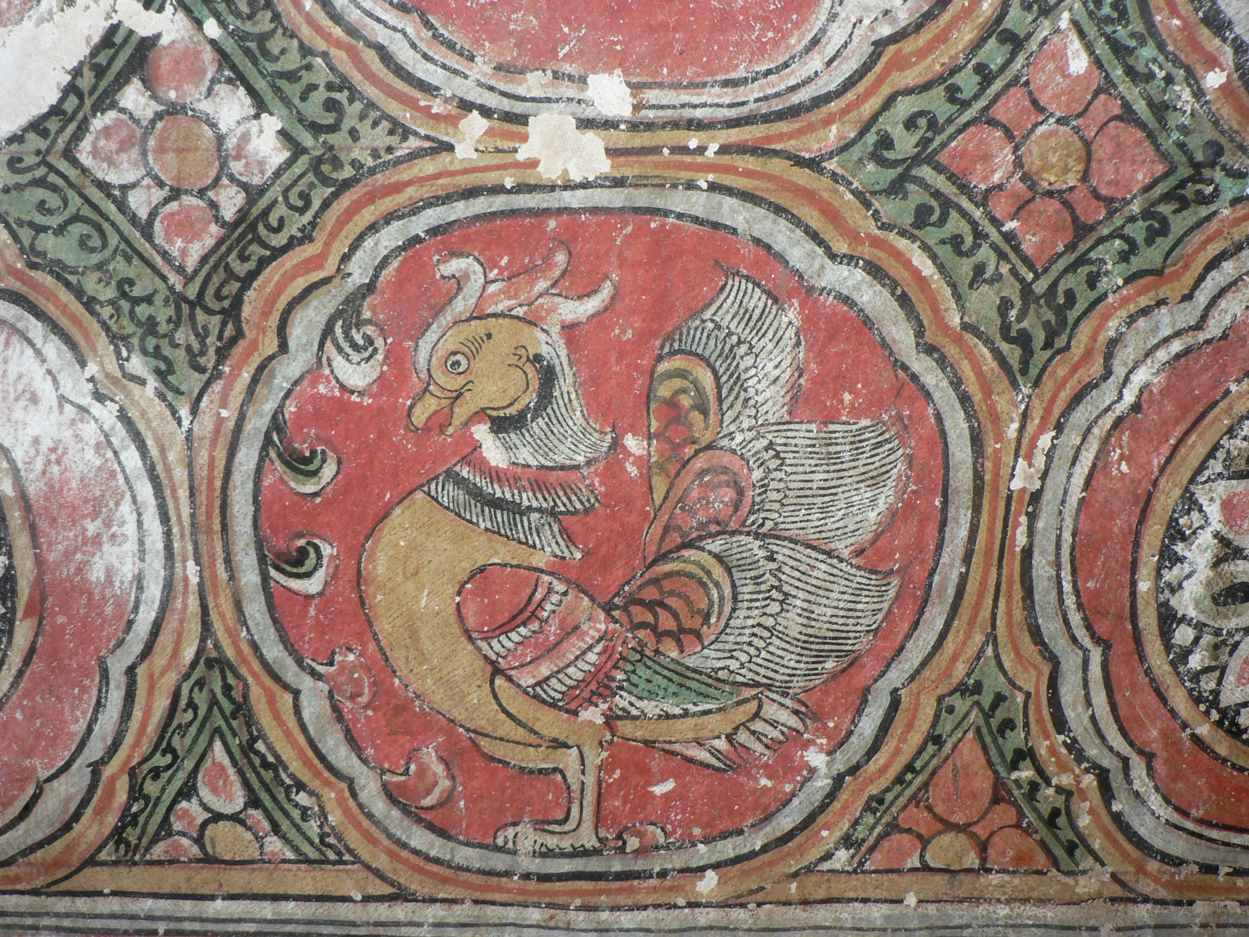 Wall painting at Tilawkaguru cave, Sagaing, Myammar